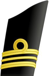 Updated Canada's naval Lieutenant-Commander